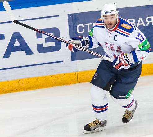 KHL-game Amur Khabarovsk — SKA Saint Petersburg on December 21, 2012. SKA Saint Petersburg forward Ilya Kovalchuk.